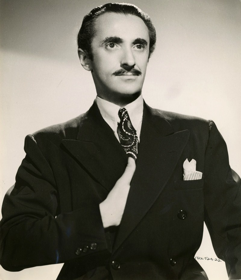 Leon Belasco in Topper Takes a Trip - publicity still (cropped)